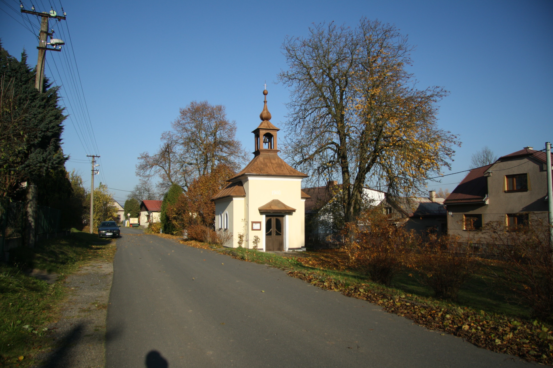 Center of Stržanov, Žďár nad Sázavou, Žďár nad Sázavou district.